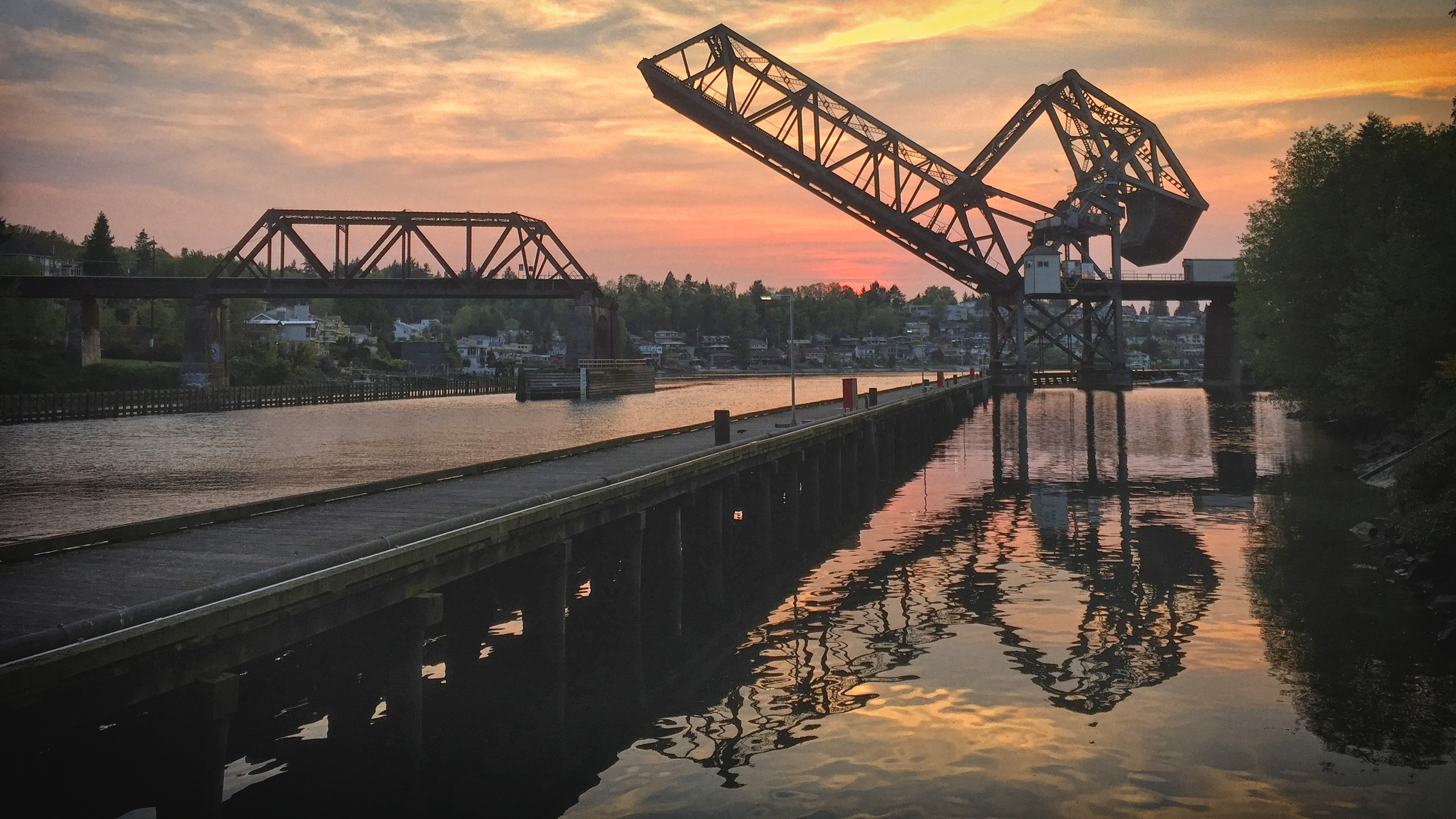 Salmon Bay Bridge (Seattle)